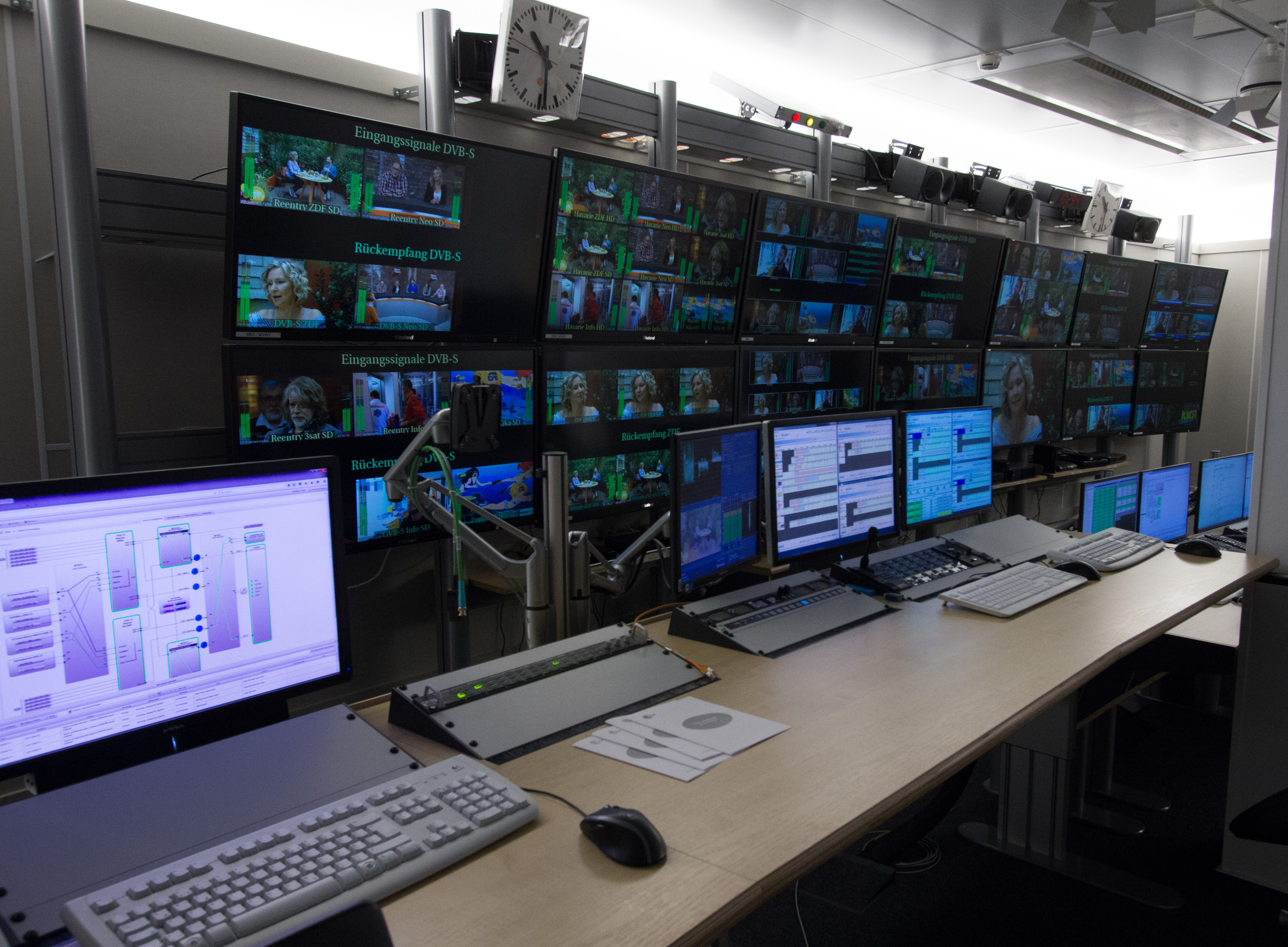 Streaming Playoutcenter ZDF in Mainz